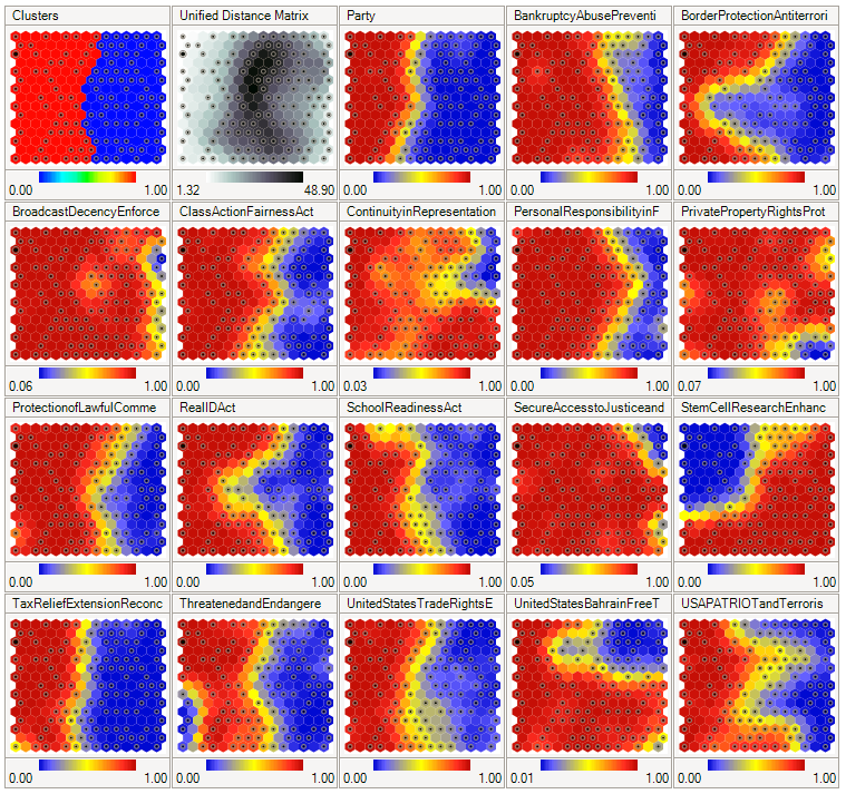 Self-Organizing Map showing US congress voting results. Screenshot from Peltarion Synapse. PNG. A self-organizing map showing U.S. Congress voting patterns visualized in Synapse. The first two boxes show clustering and distances while the remaining ones show the component planes. Red means a yes vote while blue means a no vote in the component planes (except the party component where red is Republican and blue is Democratic).